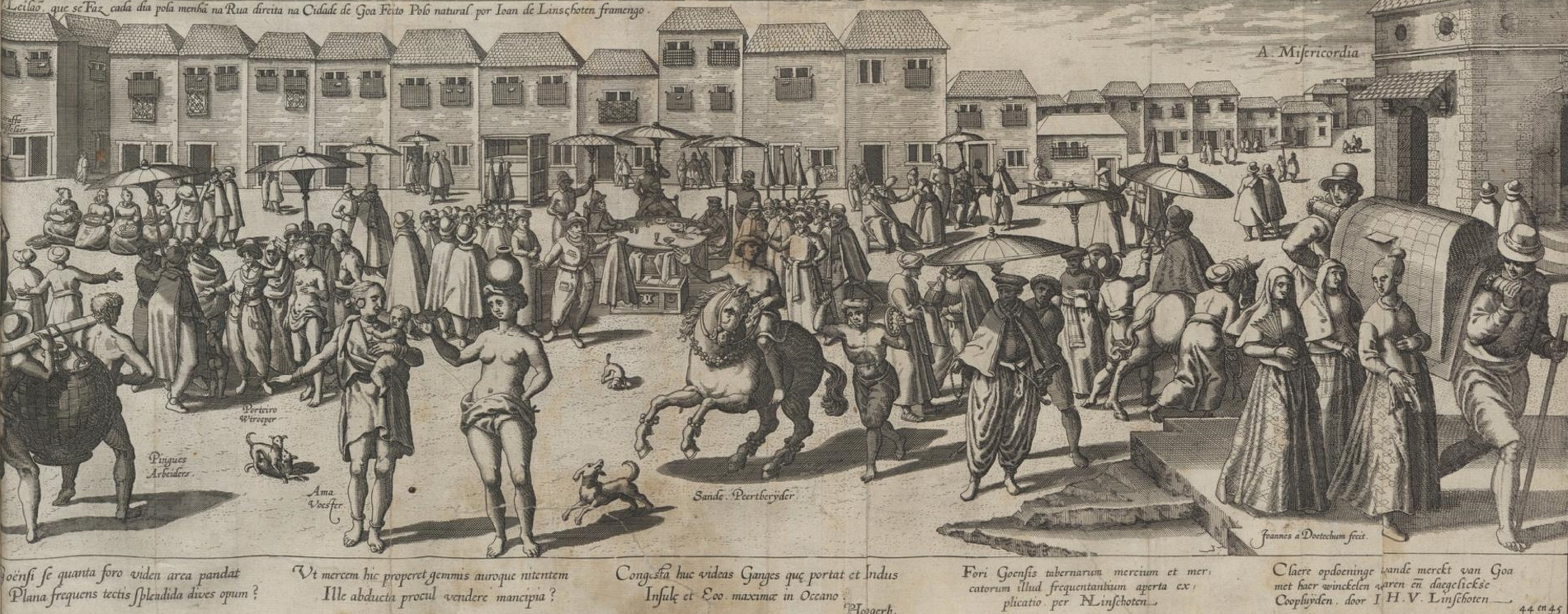 View of the marketplace of Goa